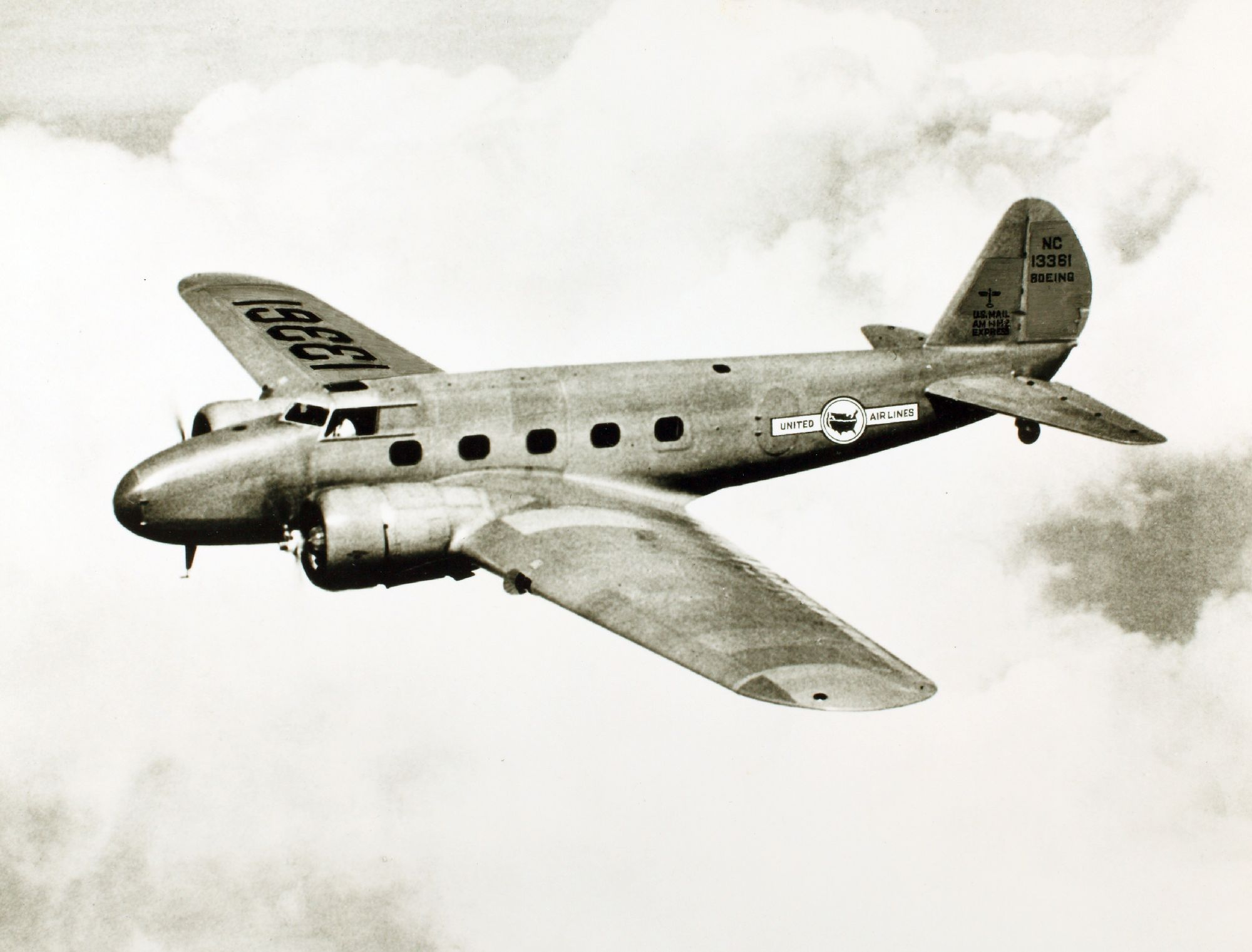 Catalog #: 01_00091365 Title: Boeing, 247 Corporation Name: Boeing Aircraft Designation: Type 247D Tags: Boeing, 247 Additional Information: USA Repository: San Diego Air and Space Museum Archive